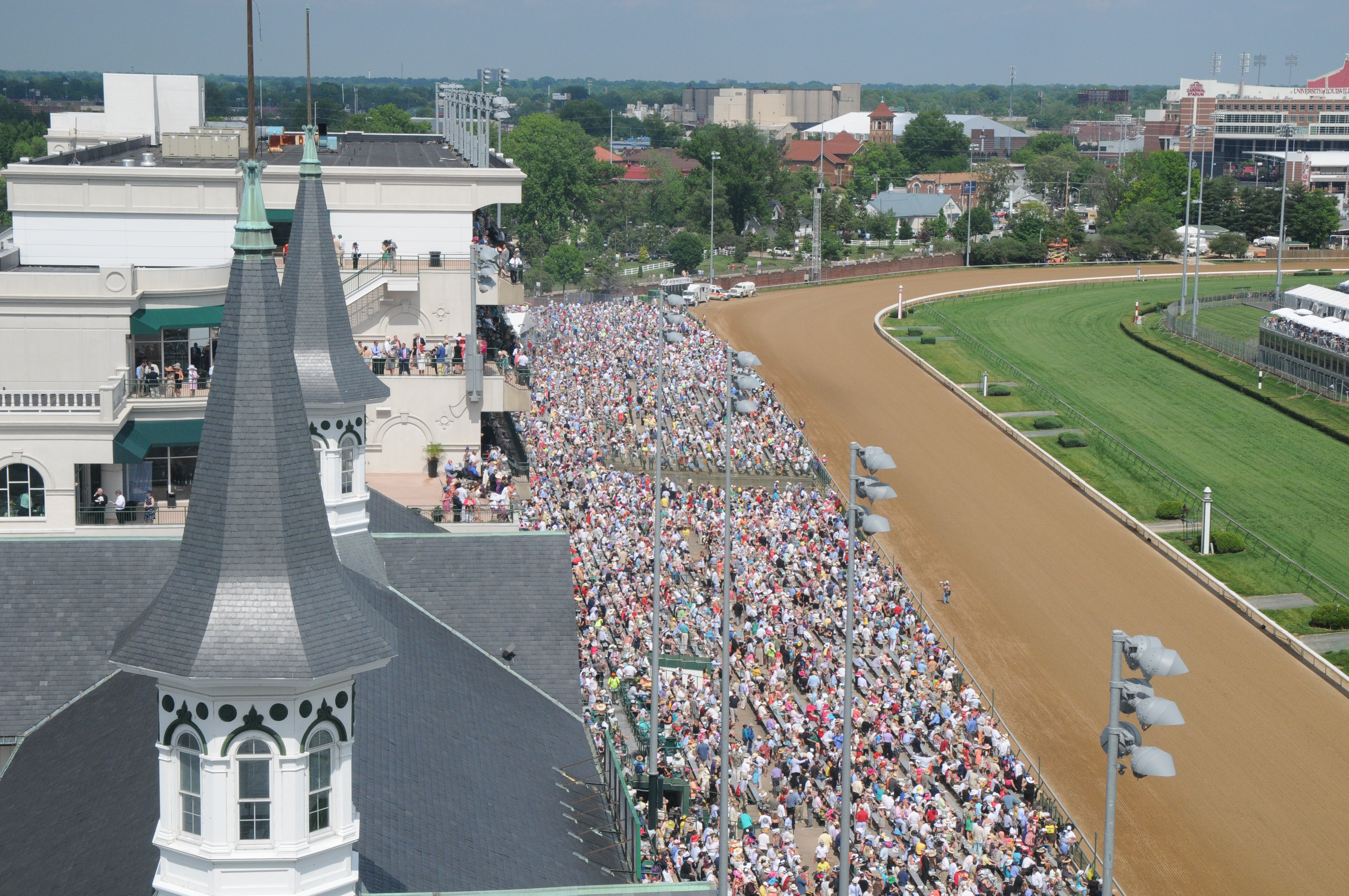 Thousands of people from all over the country descend on Churchill Downs in Louisville, Ky. for the 138th running of the Kentucky Derby May 5.(Photo by: Spc. David Bolton, Public Affairs Specialist, 133rd Mobile Public Affairs Detachment, Kentucky Army National Guard).